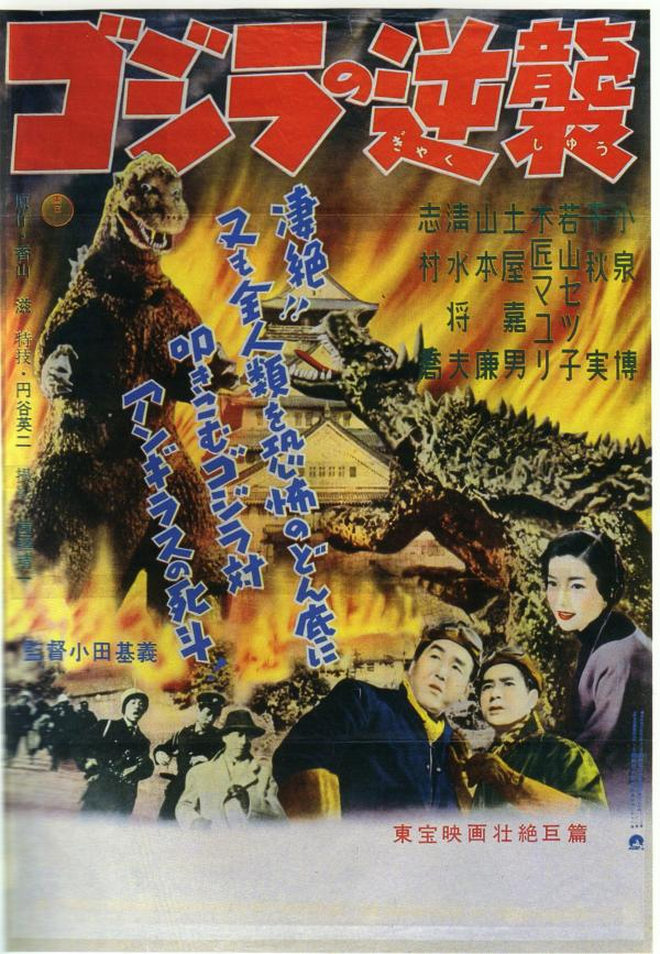 Japanese movie poster for 1955 Japanese film Godzilla Raids Again (ゴジラの逆襲, Gojira no Gyakushū)